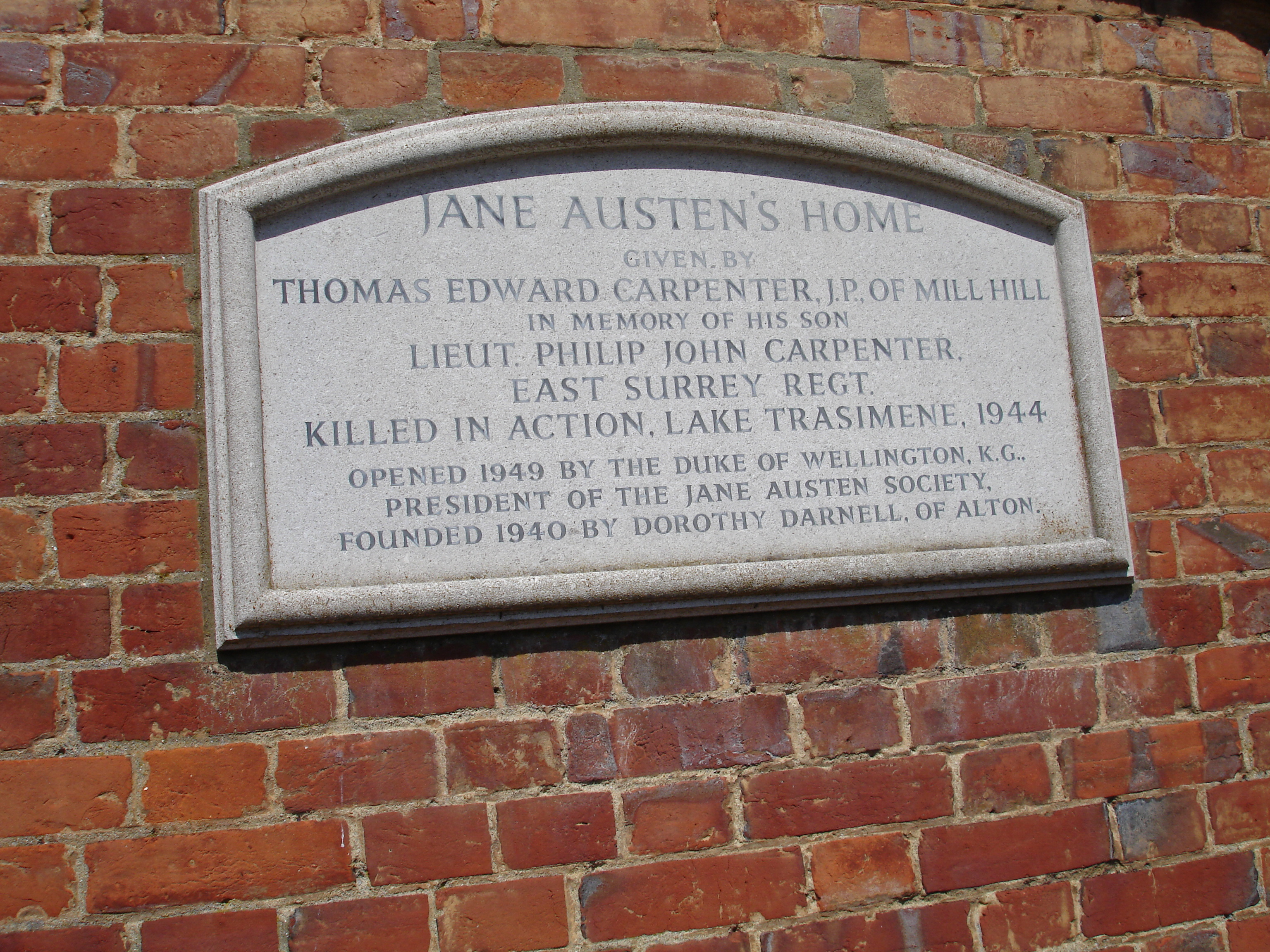 Inscription on Jane Austen's House. Suzanne Knights, my photo, Aug 2006